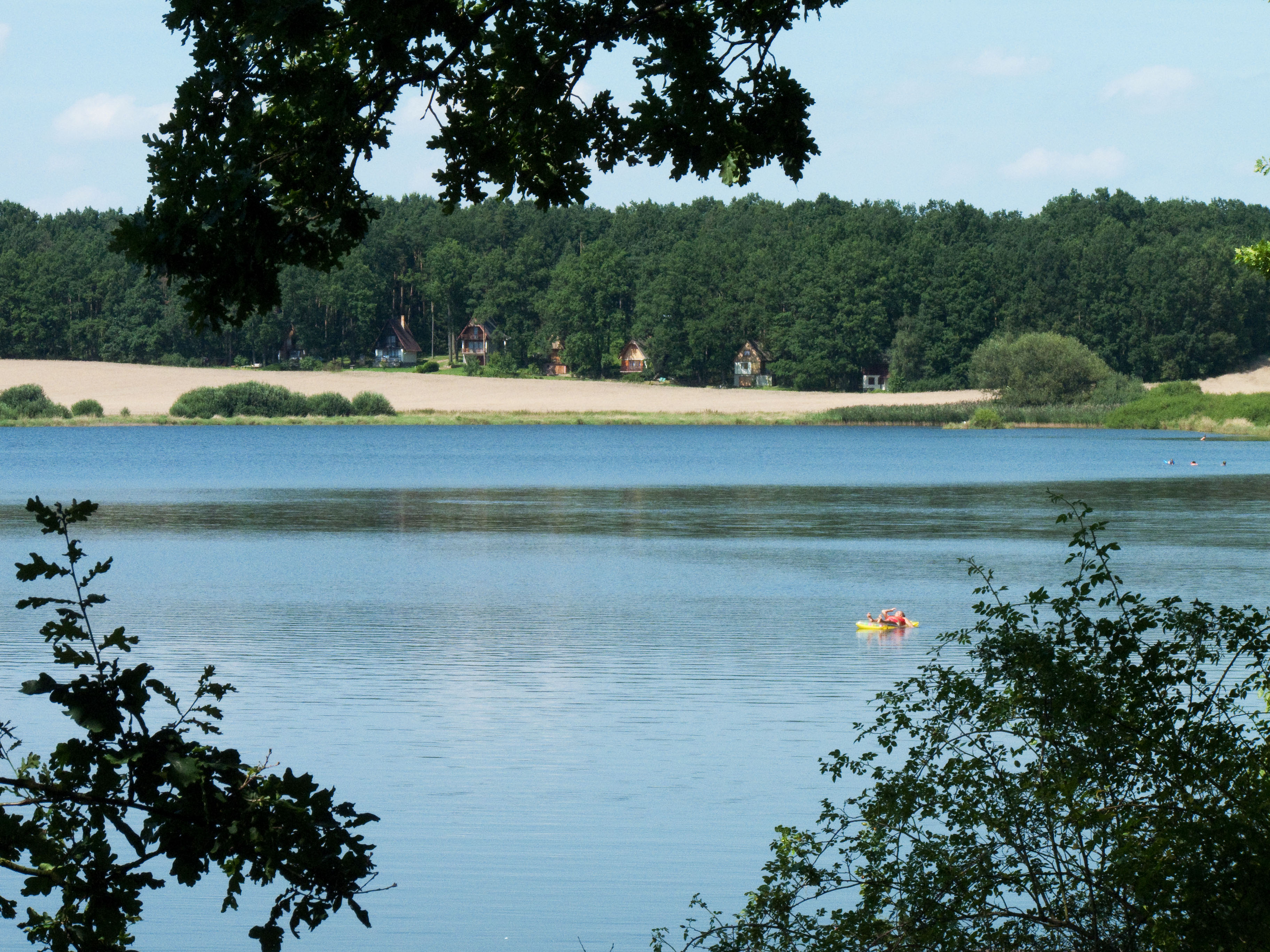 Dehtář pond, České Budějovice district, Czech Republic, is a popular summer holiday and swimming place